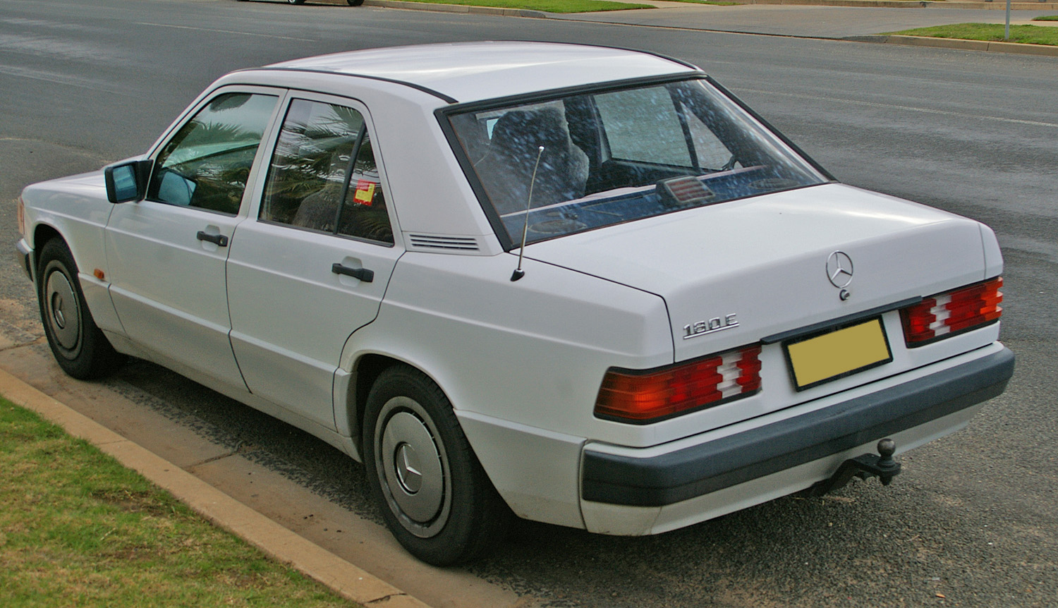 Mercedes-Benz 180E Limited Edition